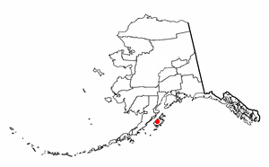 AK Map do ton Larsen Bay